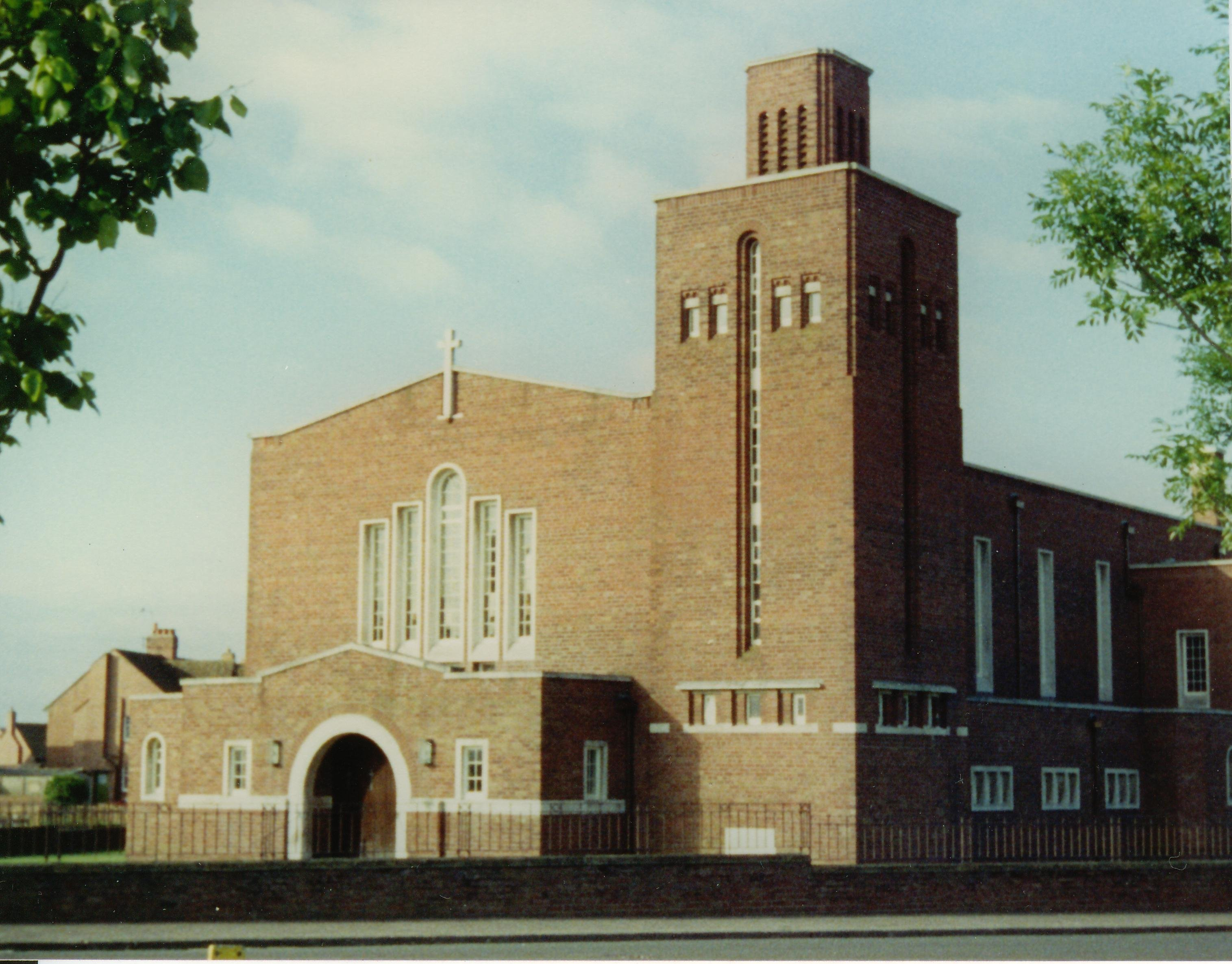 Former cathedral of the Good Shepherd Cathedral, Ayr, Scotland (closed 2007)